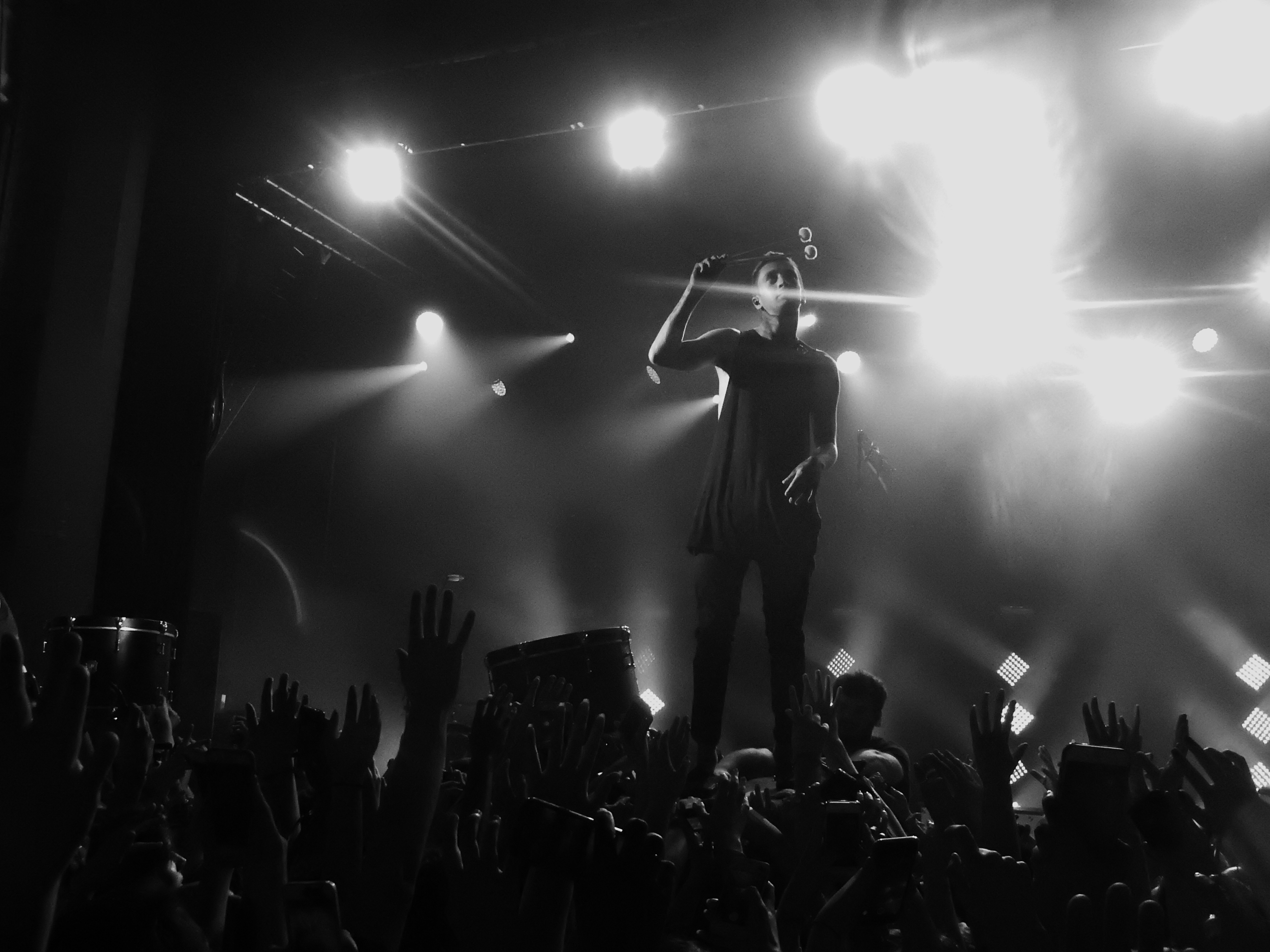 Twenty One Pilots, Shepherds Bush Empire, London